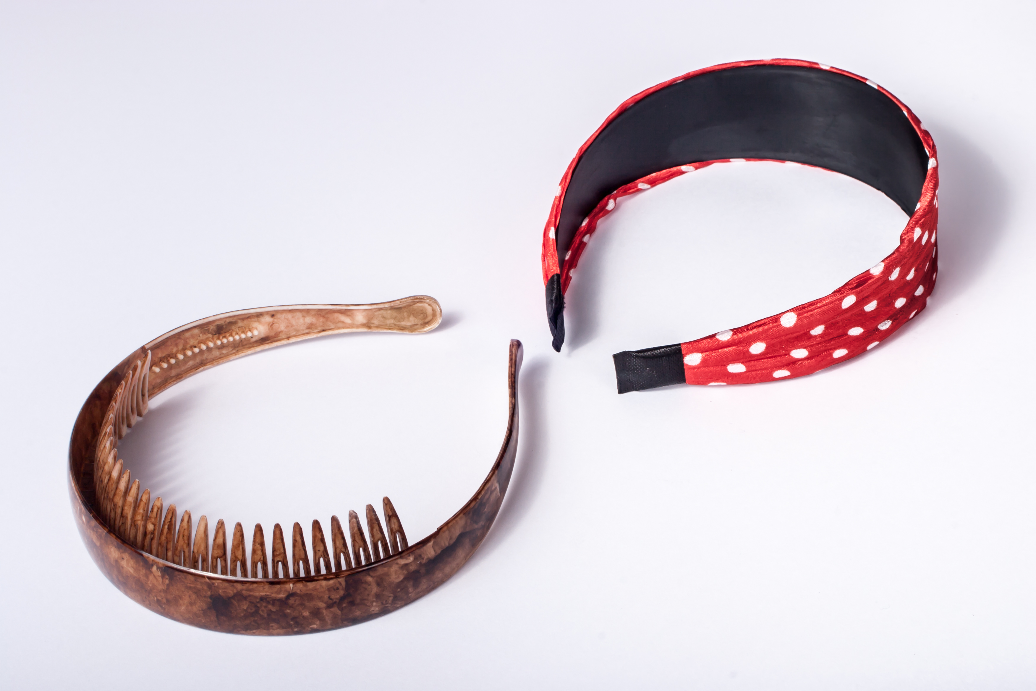 Two hard plastic headbands. The brown one with a comb. NOTE: it was reshoot with f/18, not f/11